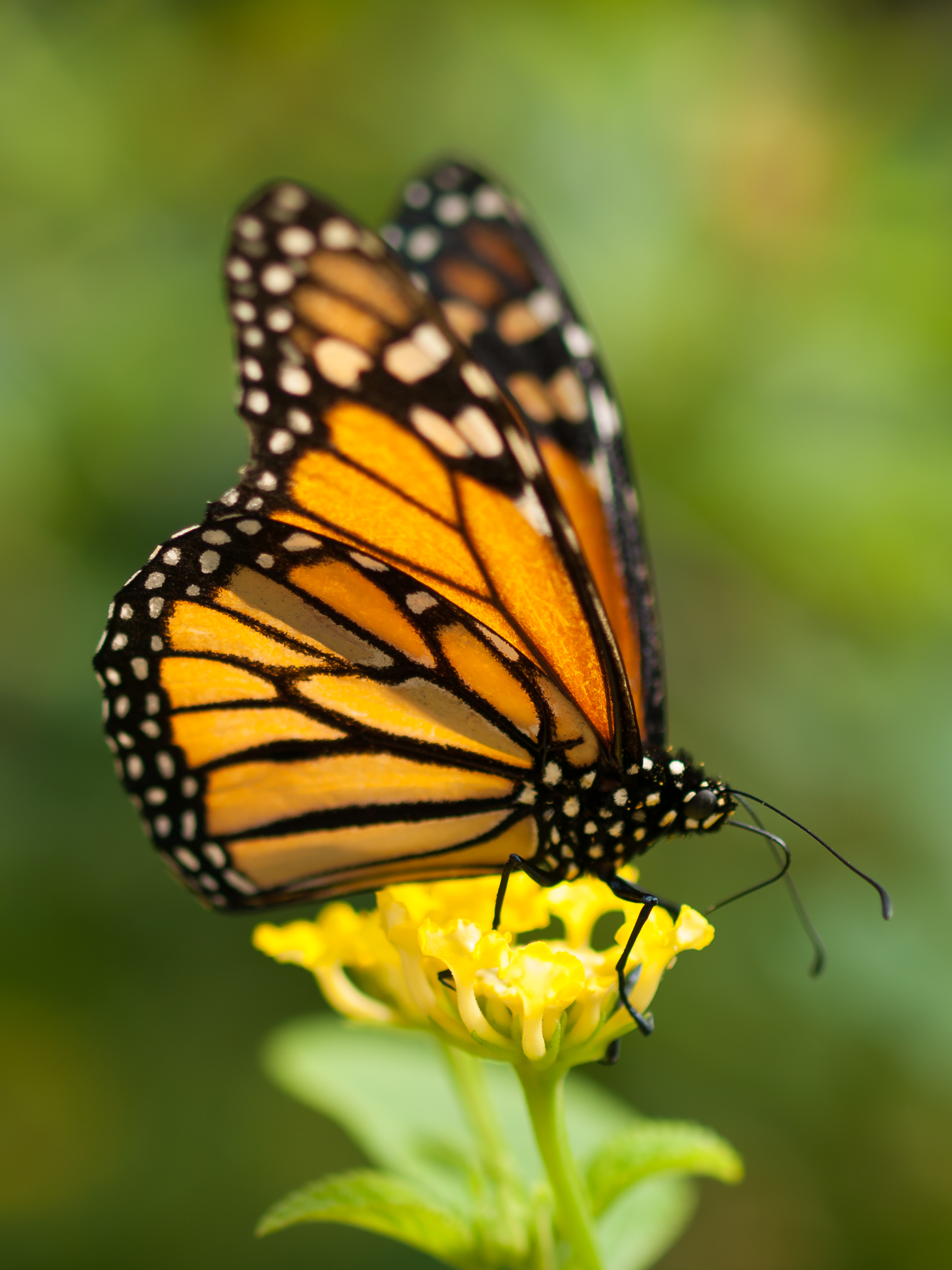 Monarch butterfly in the butterfly house at Palmitos Park in Gran Canaria